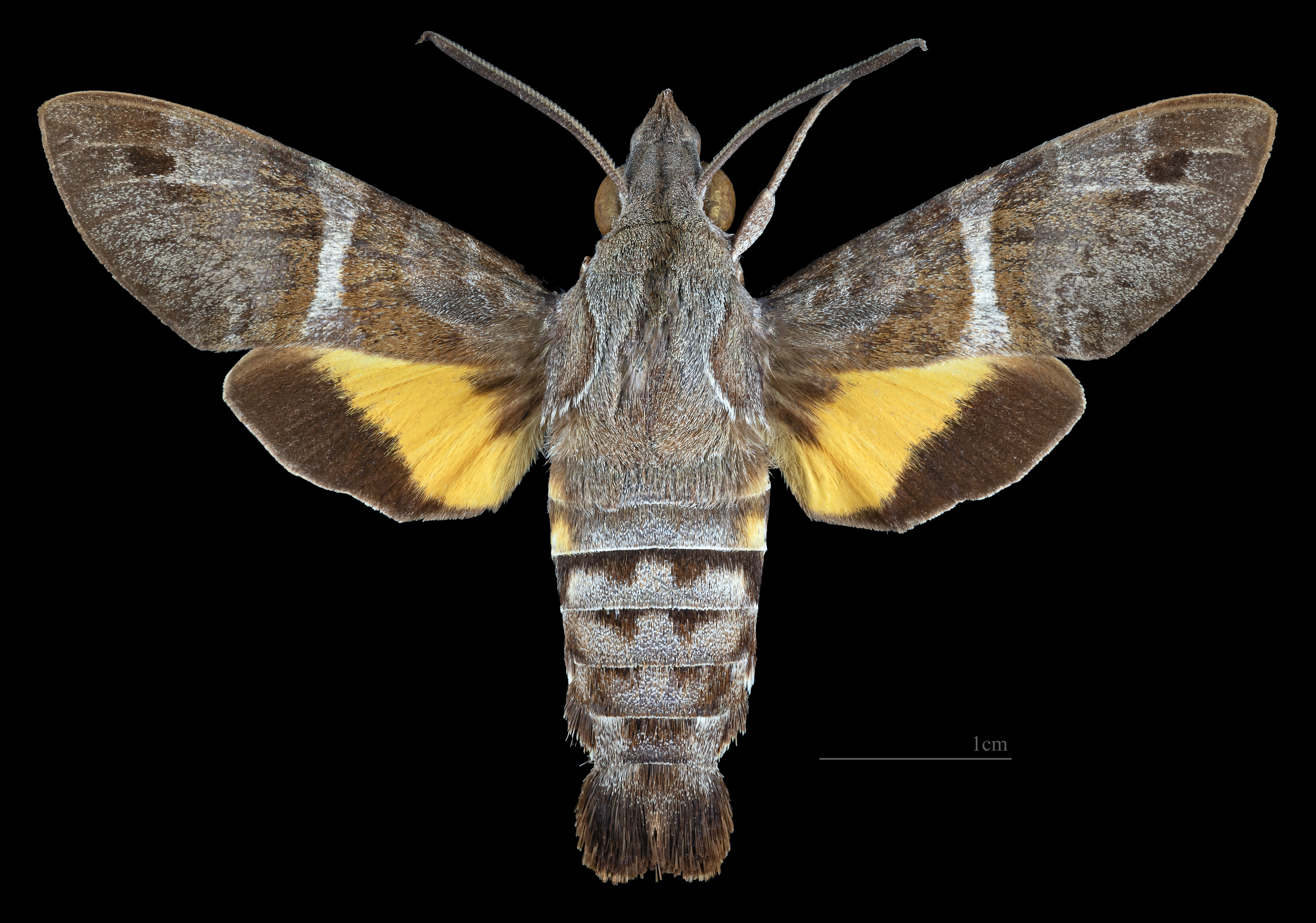 Macroglossum hirundo - Dorsal side Collection of the Mathematician Laurent Schwartz